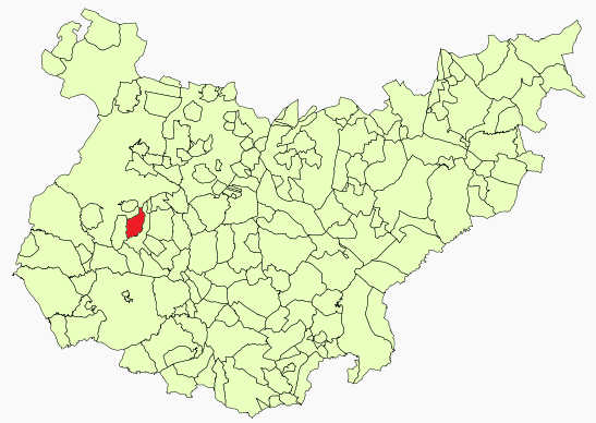 Torre de Miguel Sesmero